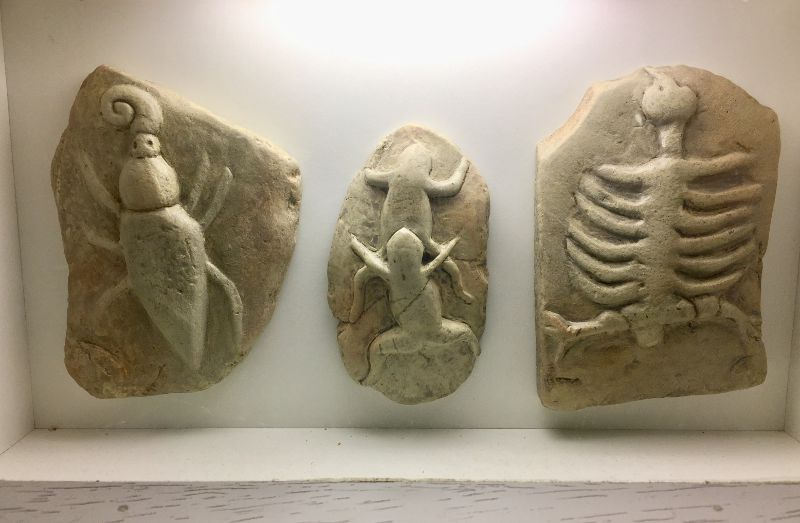 Three of Beringer's Lying Stones, on display in Naturmuseum Senckenberg (Frankfurt)